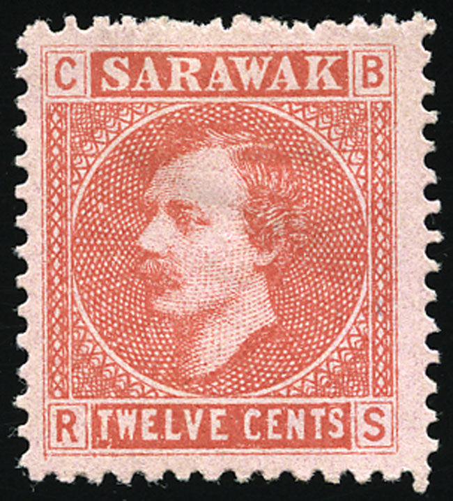 Postage stamp of Sarawak (Malaysia), rajah Charles Brooke, 12c, 1871